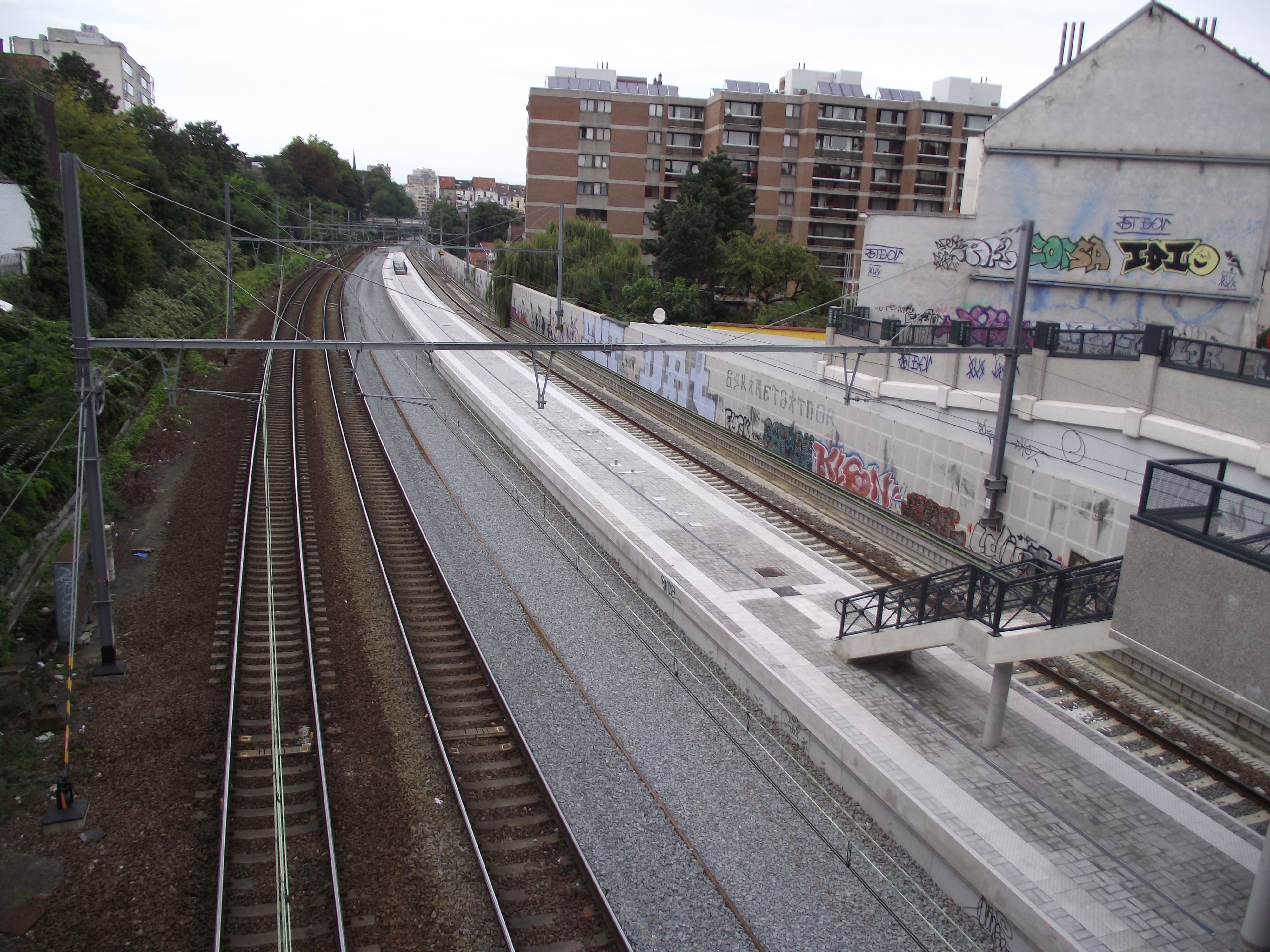 New platform of the future Germoir station.